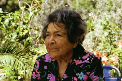 Photograph